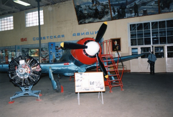 PictionID: 42764918 - Catalog:15_003471 - Title:Lavochkin LA-7 White 27, ADDITIONAL INFORMATION: Front view of the Lavochkin LA-7, White 27. Kozedub reportedly had 62 German kills in 520 sorties in LA-5 & LA-7 aircraft, 22 of which were FW 190s & 19 Me109s; He had 11 victories in one 10 day period. - Filename:15_003471.tif - ---- Image from the Charles Daniels Photo Collection album "Monino Indoors '93" which includes images taken by Mr. Daniels when he visited the Monino Museum in 1993.----PLEASE TAG this image with any information you know about it, so that we can permanently store this data with the original image file in our Digital Asset Management System.------------SOURCE INSTITUTION: San Diego Air and Space Museum Archive